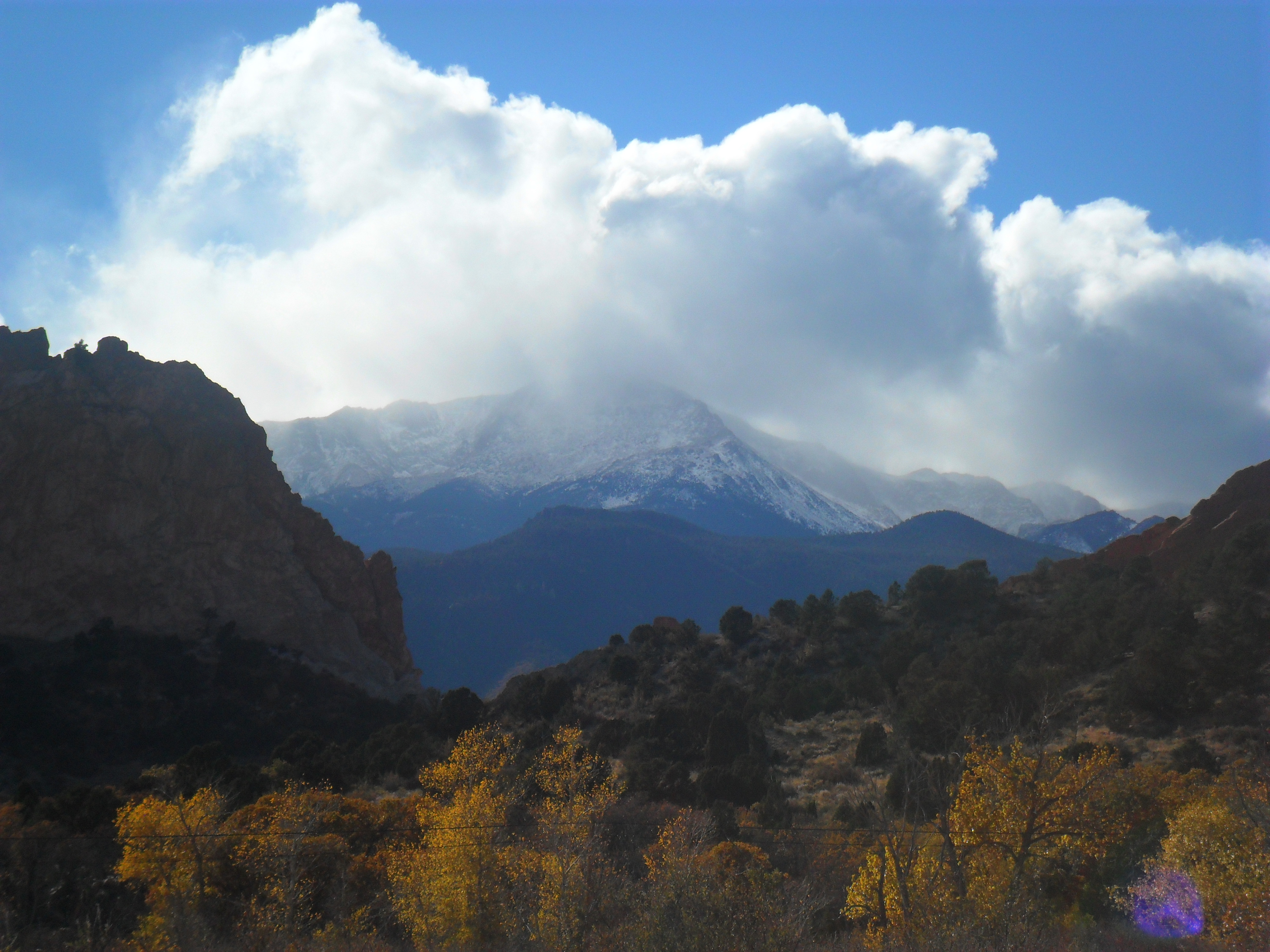 Pikes Peak seen from Garden of the Gods park